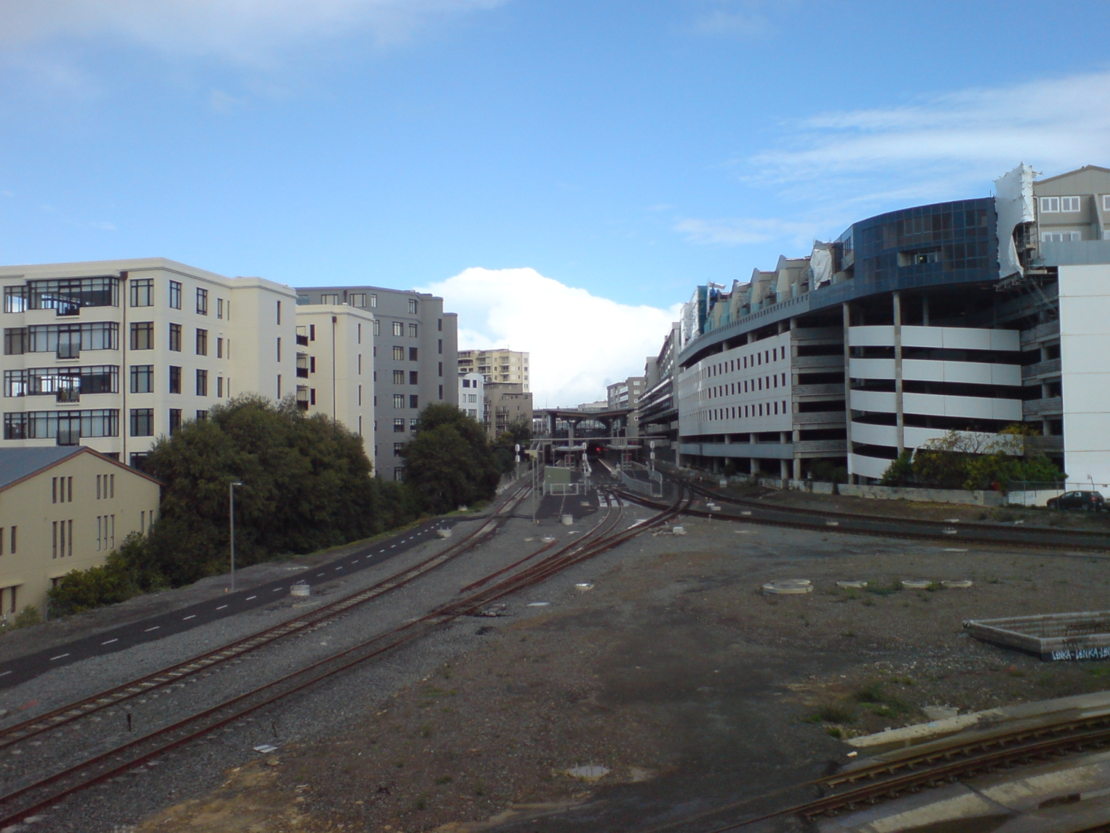 Newmarket Train Station in Auckland City, New Zealand. Looking south, over the turnoff of the Western Line (to the right).